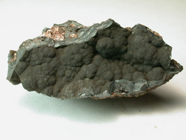 Hollandite Locality: Luis Lopez manganese District, Socorro Co., New Mexico, USA Original description: A 6.0 by 2.8 cms botryoidal mass. JSS specimen and photograph.